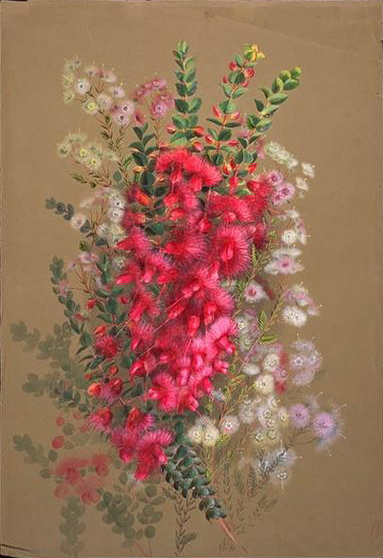 Illustration of Verticordia described at [1] as Verticordia grandis, V. huegelii, V. brachypoda 1 watercolour ; 53.5 x 36.7 cm Signed top c. Inscription on reverse: Champion Bay. Ellis Rowan Australia Collection 275/516.